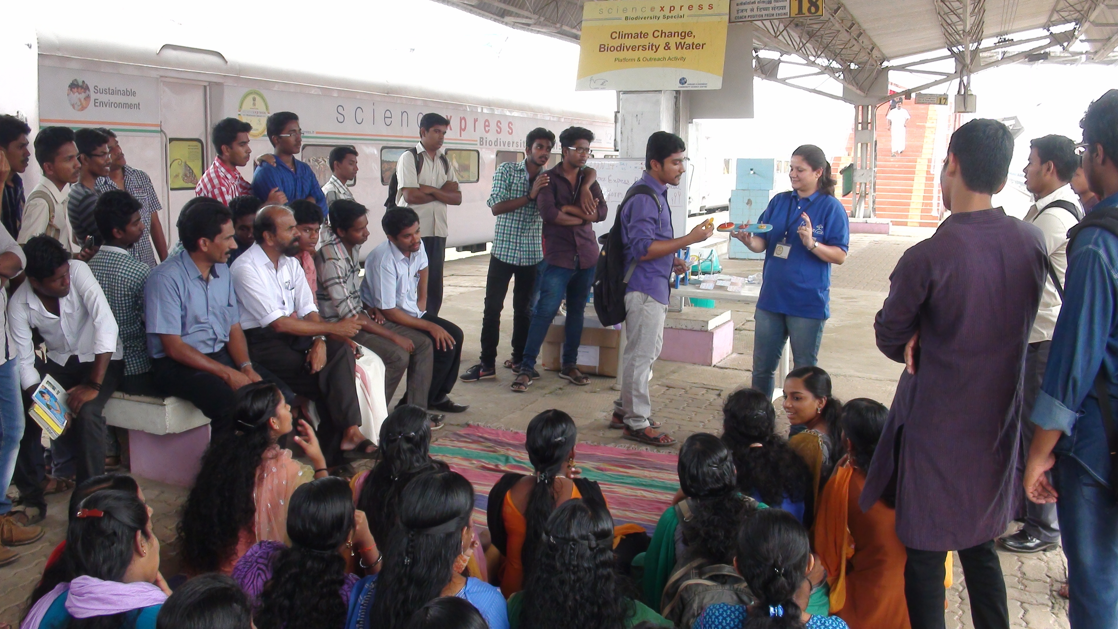 science express bio diversity special